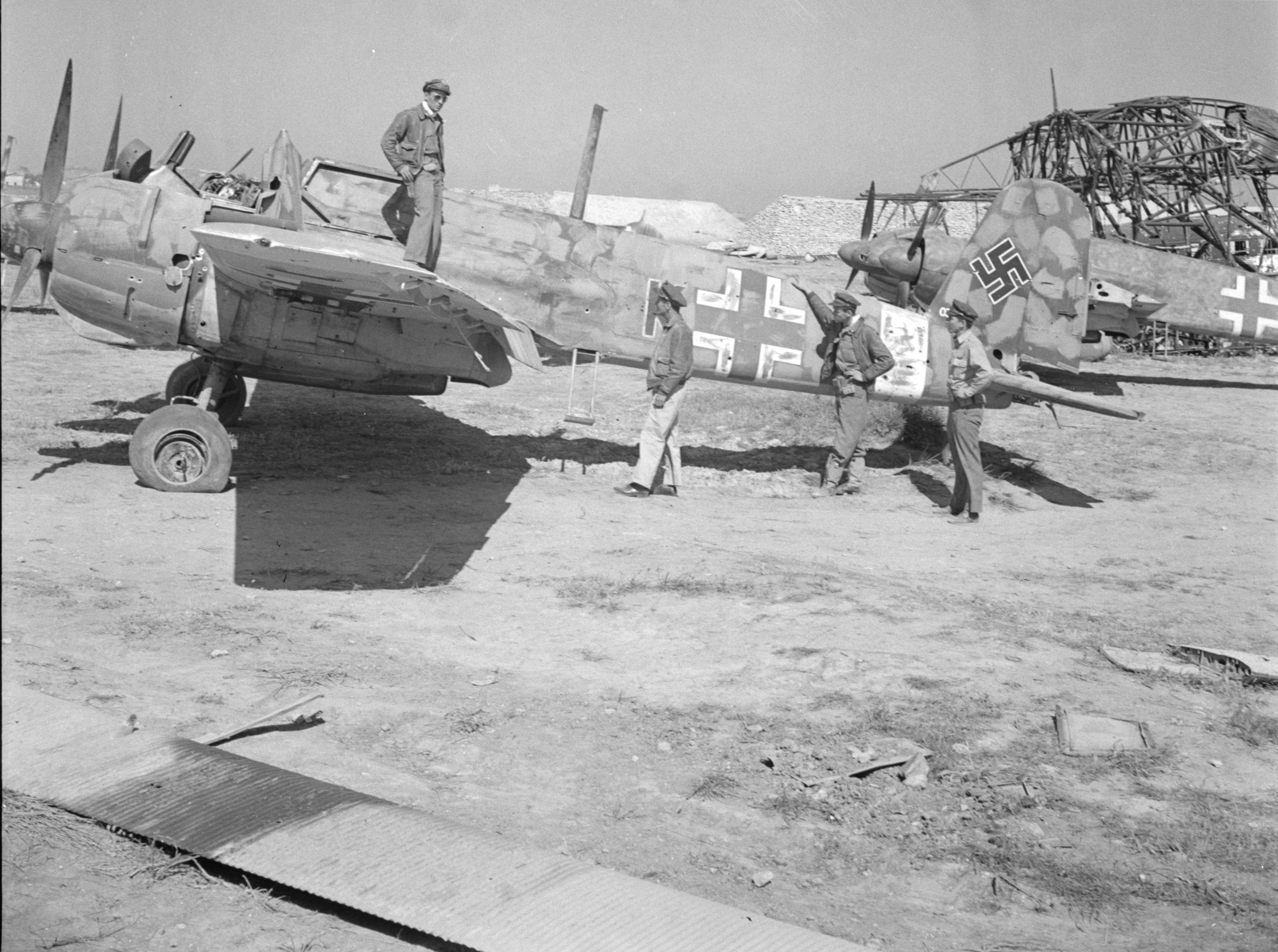 Damaged German Henschel Hs 129B of 5.(Pz)/Schlachtgeschwader 1 at El Aouiana airport, Tunis, Tunisia, in May 1943. In the background is a wreck of an Messerschmitt Me 323D-1/-2 Gigant transport.